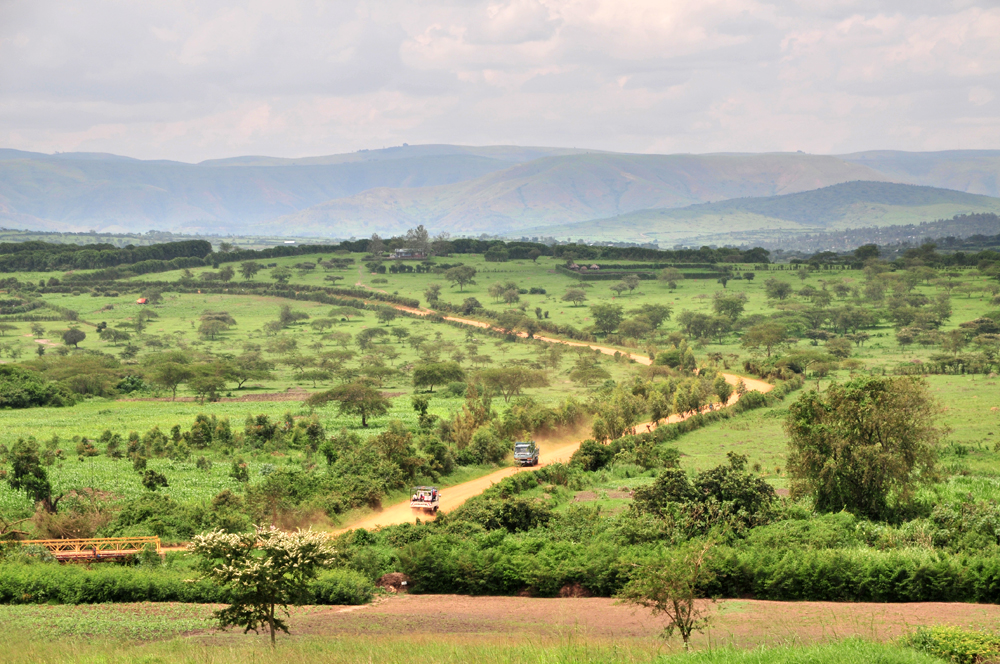 Pic by Neil Palmer (CIAT). General View - a dirt road in Rwanda's Eastern Province.